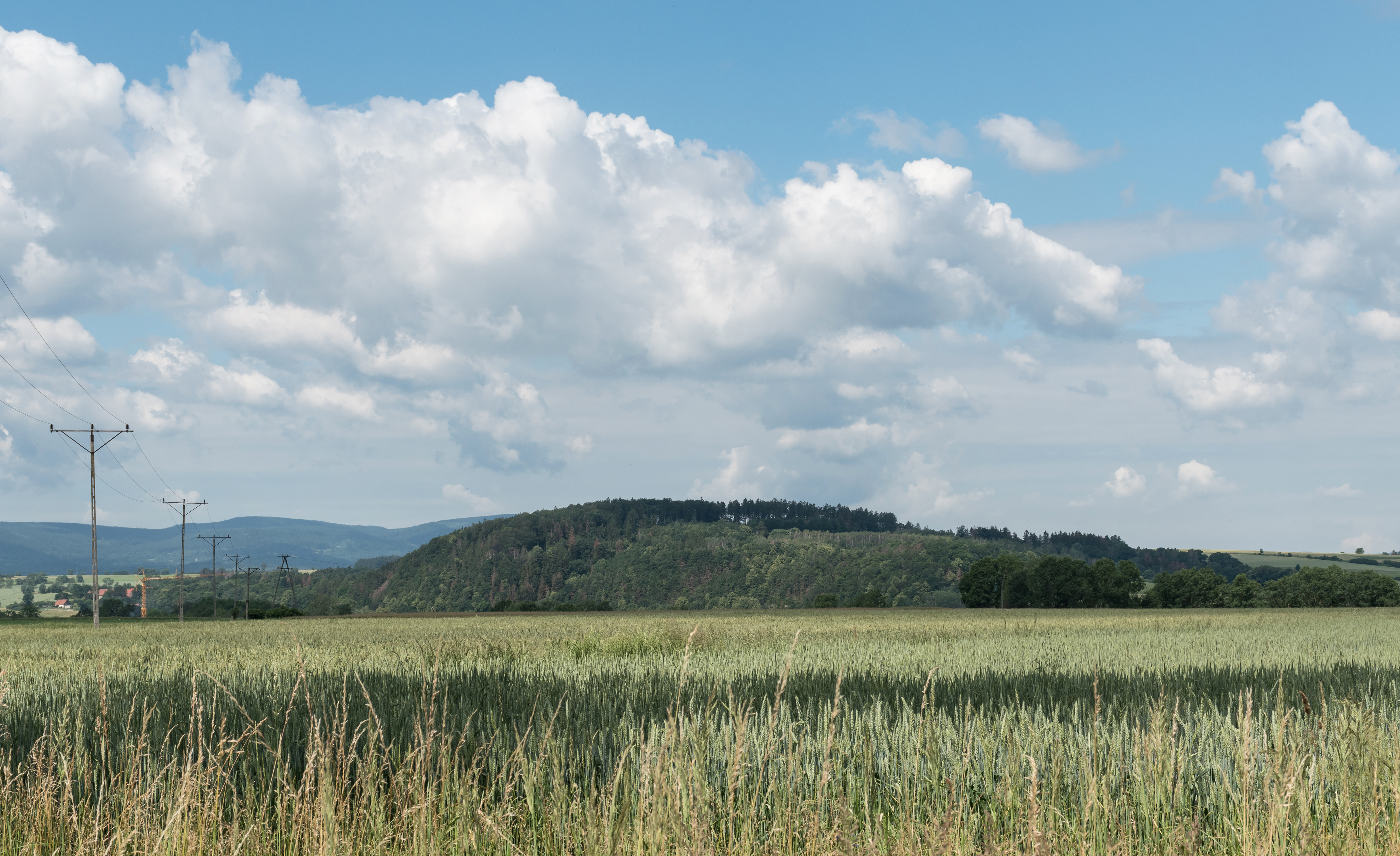 Czerwoniak, Bystrzyckie Mountains, Sudetes, Poland